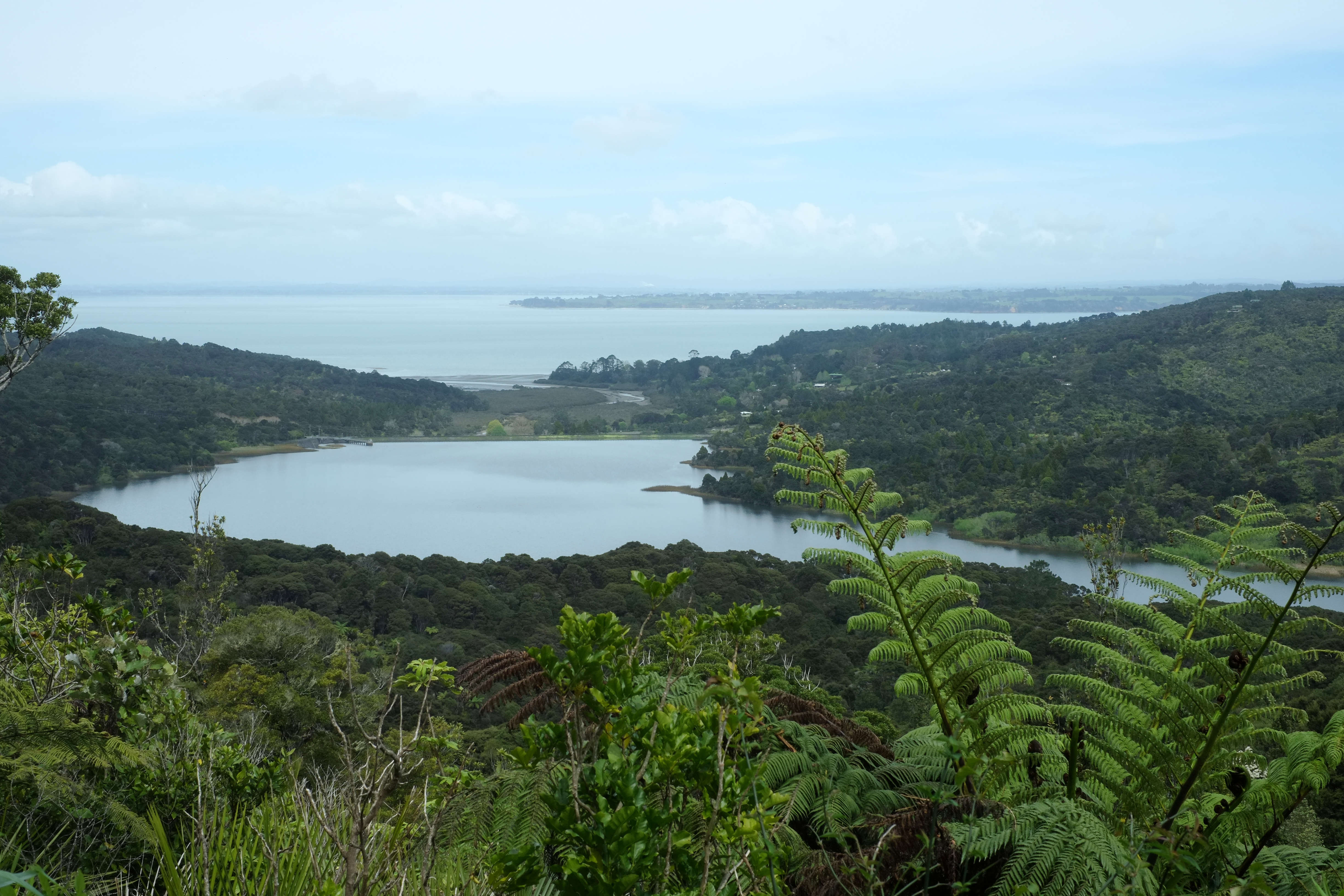 Lower Nihotupu storage lake from Nihotupu bush tram line (Rainforest Express)